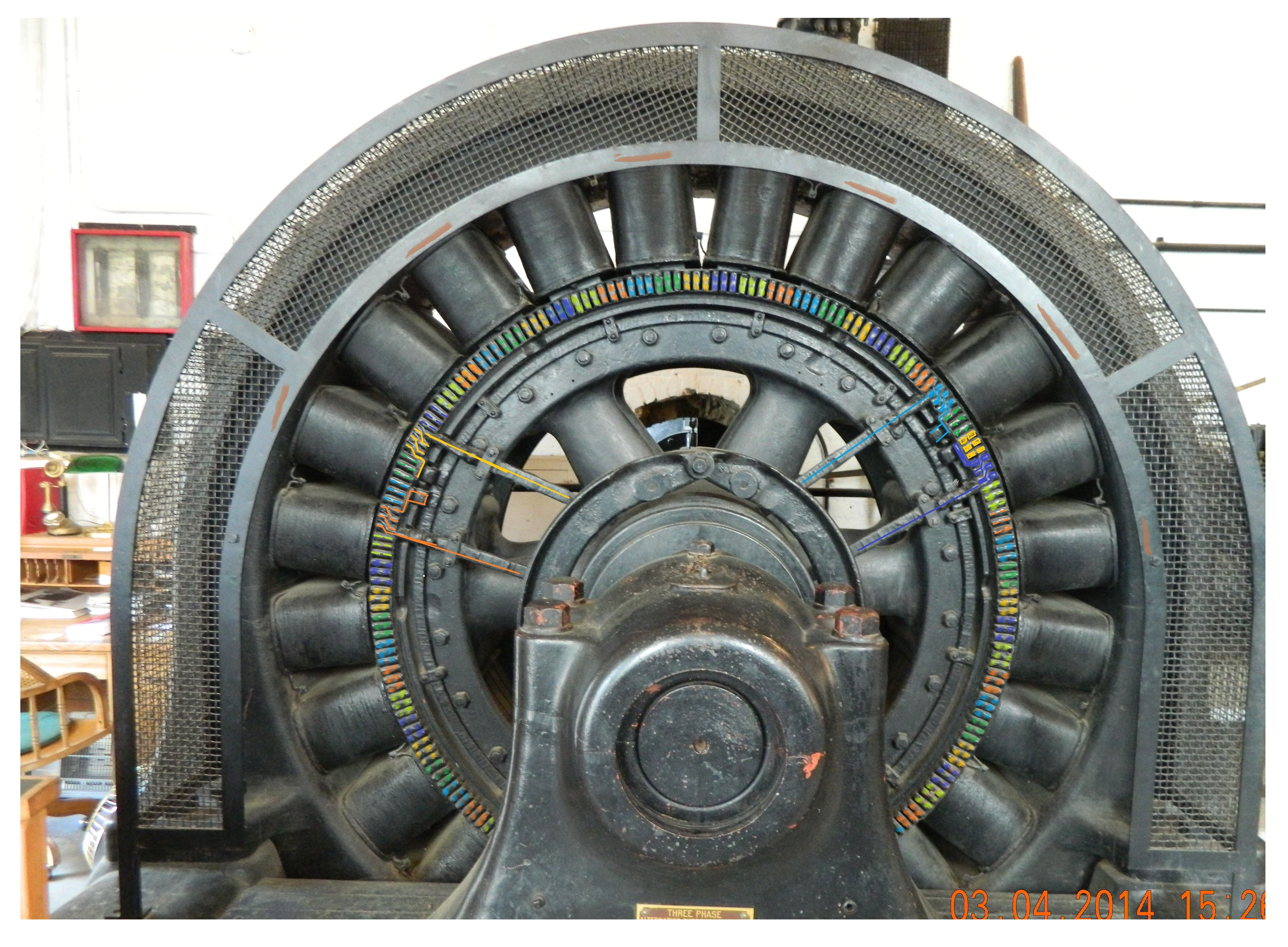 Rotating Coilless Armature Alternator